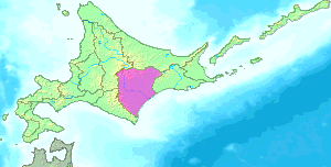 Tokachi shinkokyoku subpref